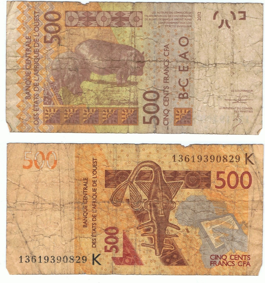 Five hundred francs CFA